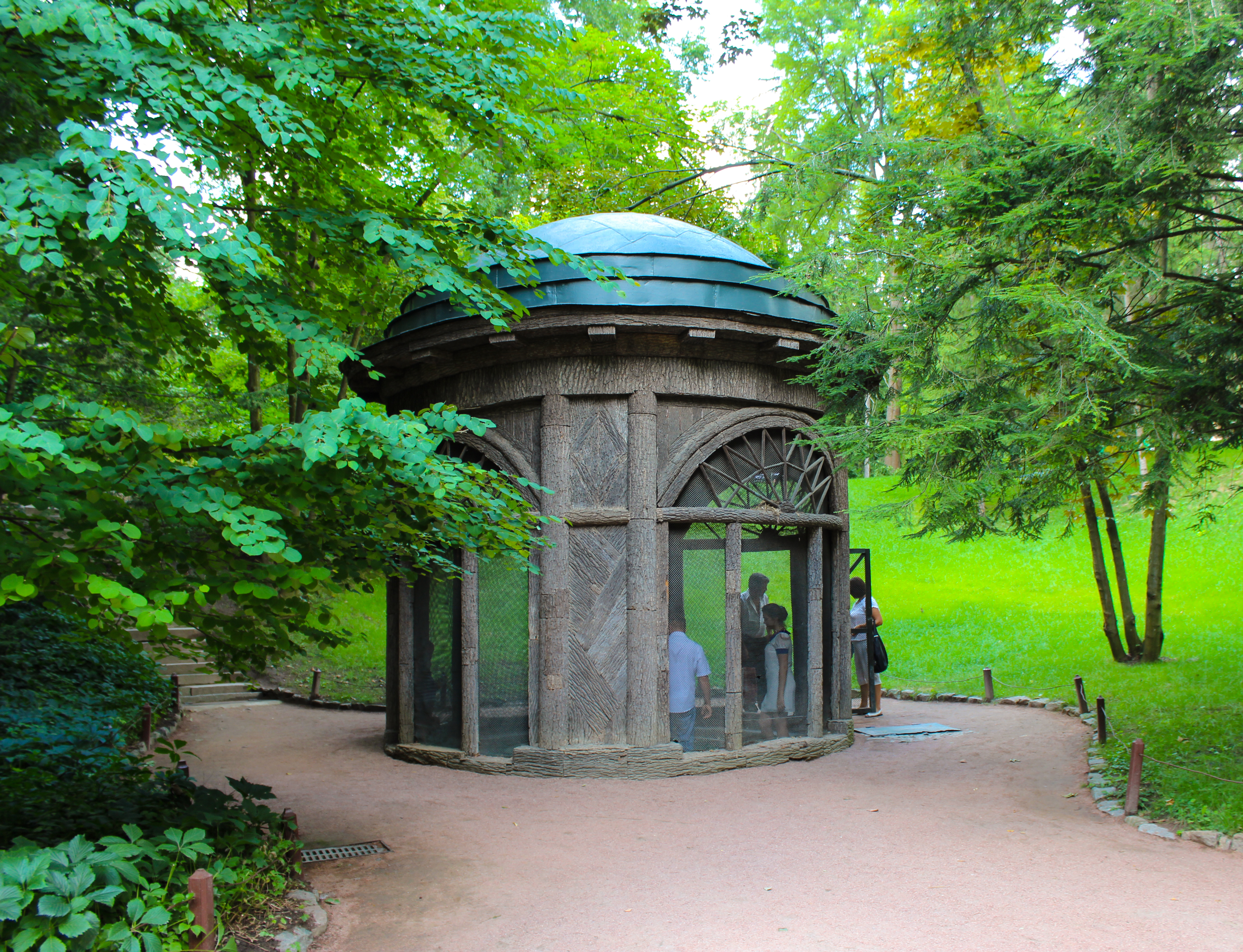 Pheasant Pavilion, now fountain